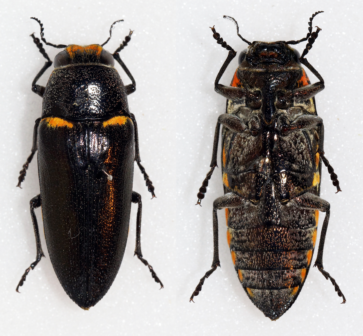 LeConte,1854 Sex: ? Data: 17-07-14 - Box Canyon - Pima County - Arizona - USA Size: 28.5mm